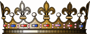 Prince du Sang Royal crown, attributed to the sons of the King of France (save the first) after Francis I of France. Before that, it used to be the royal crown of France.